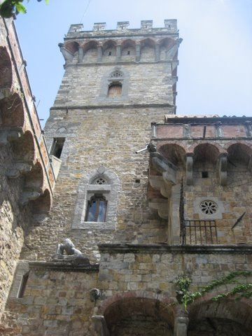 The castle as it is today (2010)